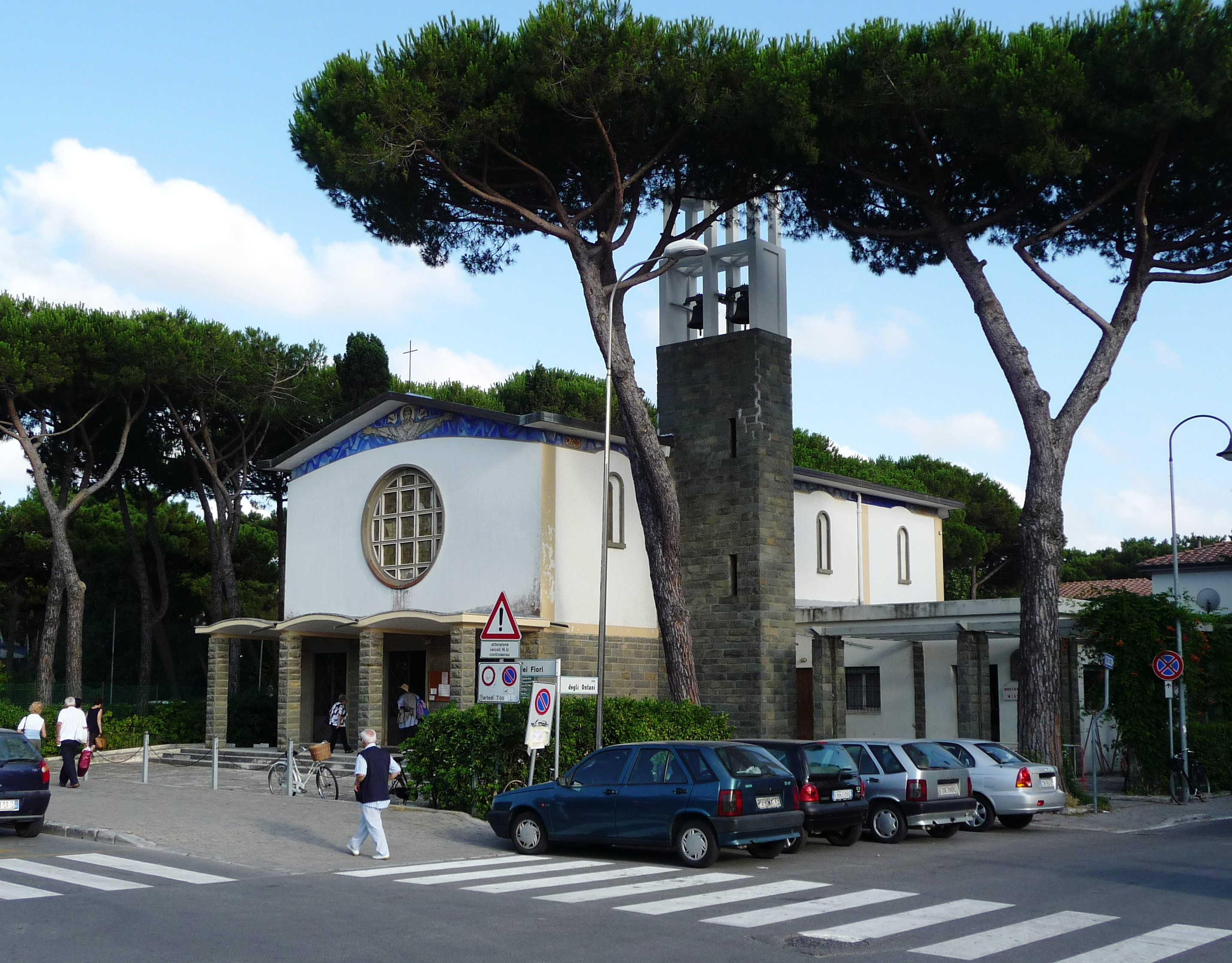 Church "San Francesco", Tirrenia, Pisa, Italy